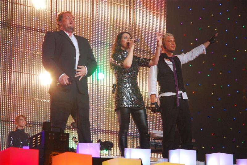 Jonas, Jenny and Ulf performing live in Saint Petersburg, Russia (European Tour 2007)